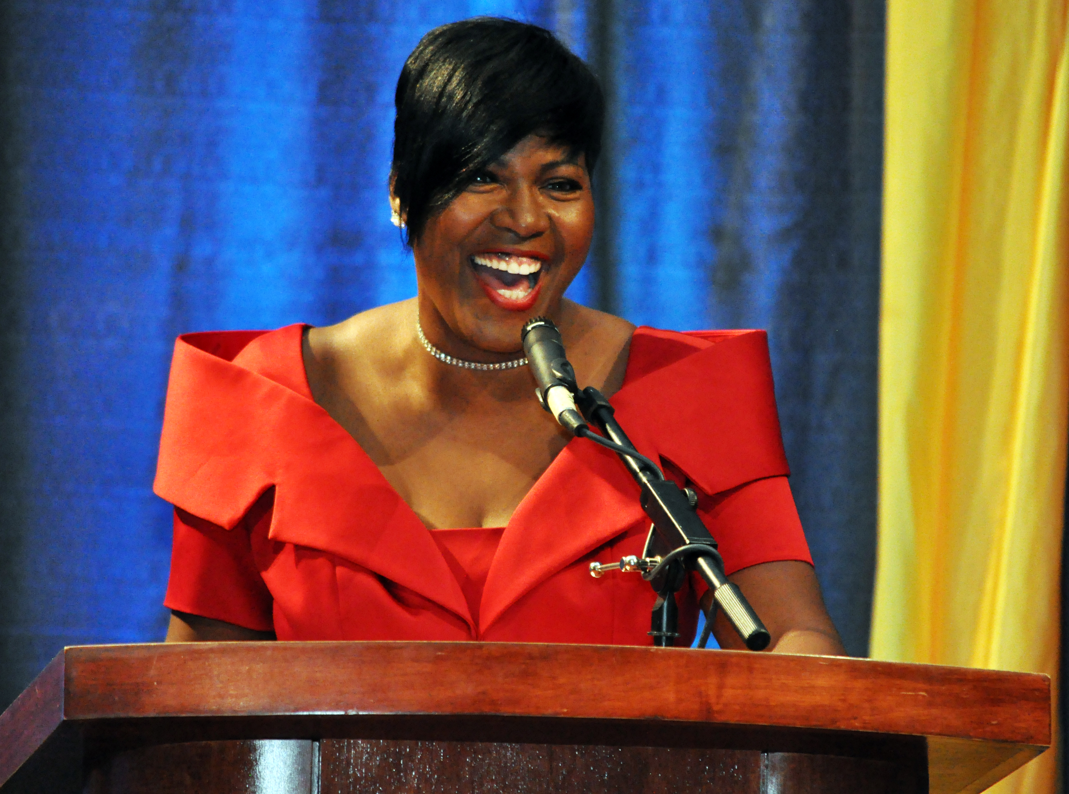 Trina Jeffries hosting the 2012 AMG Heritage Awards